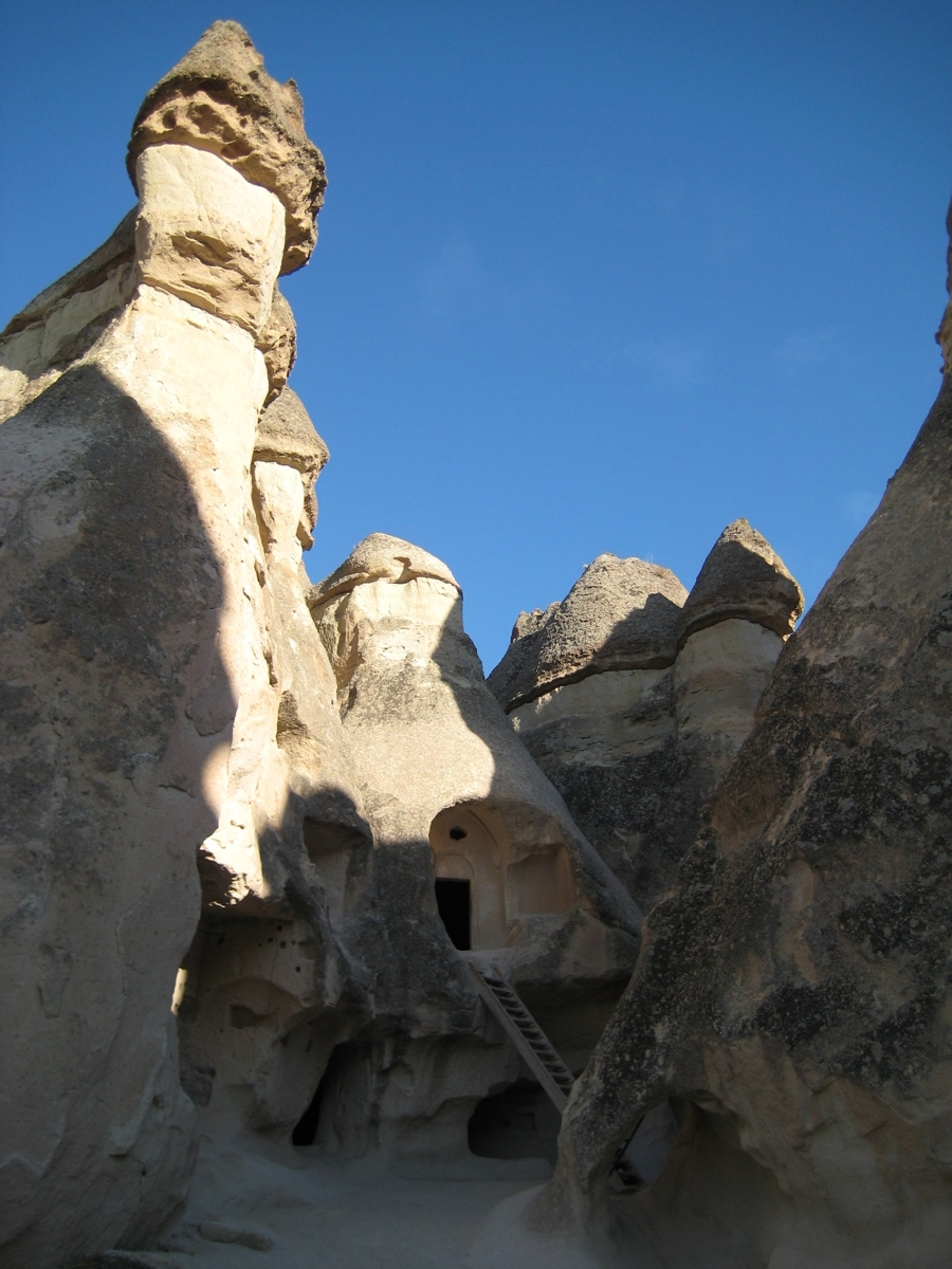 Paşa Bağlari, Cappadocia